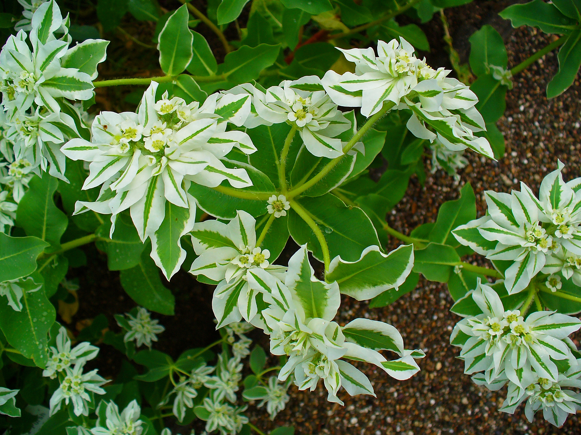 Euphorbia marginata, Euphorbiaceae, Snow-on-the-mountain, Smoke-on-the-prairie, Variegated Spurge, Whitemargined Spurge, inflorescences; Botanical Garden KIT, Karlsruhe, Germany.